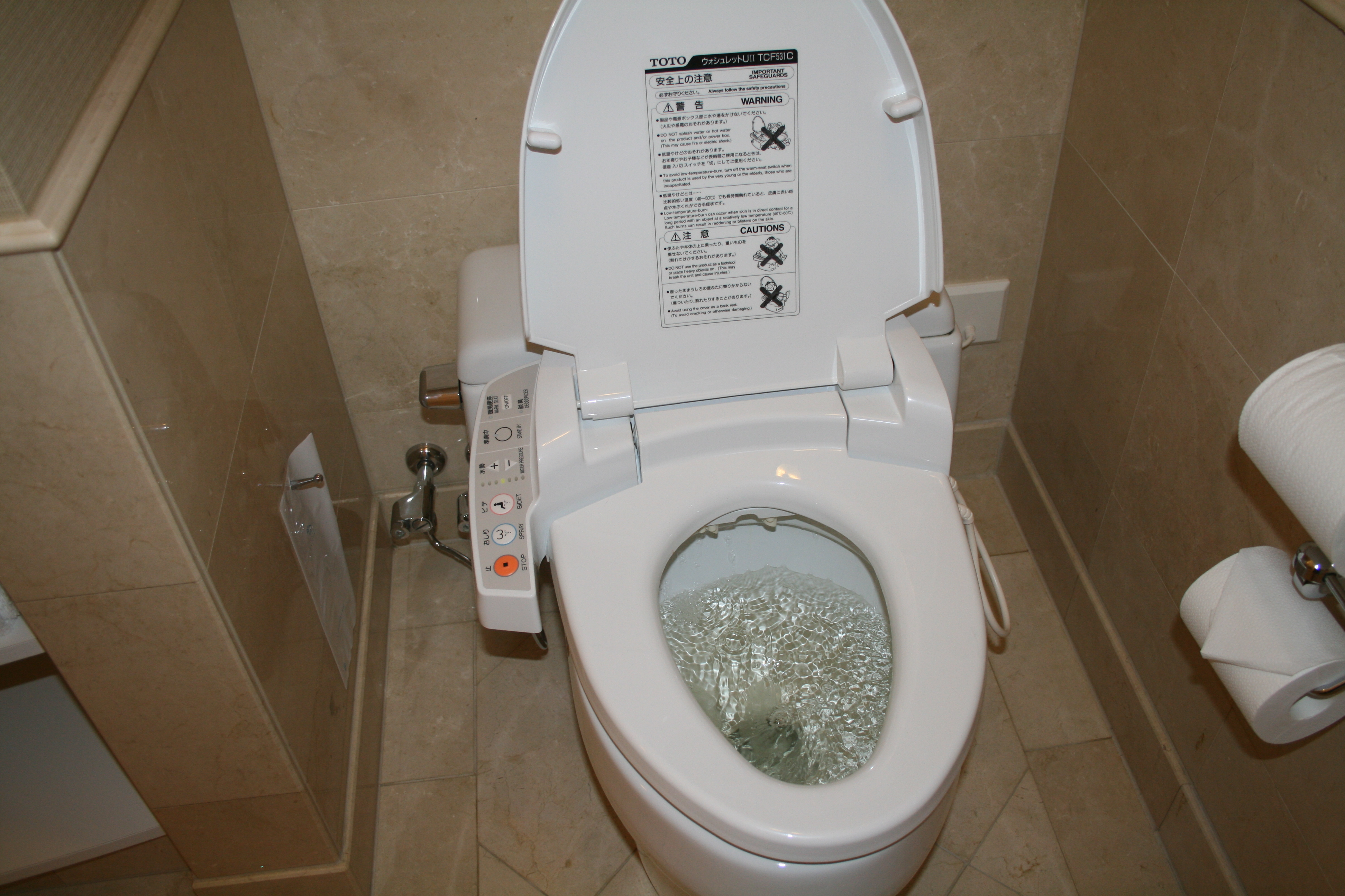 Modern Japanese Toilets.